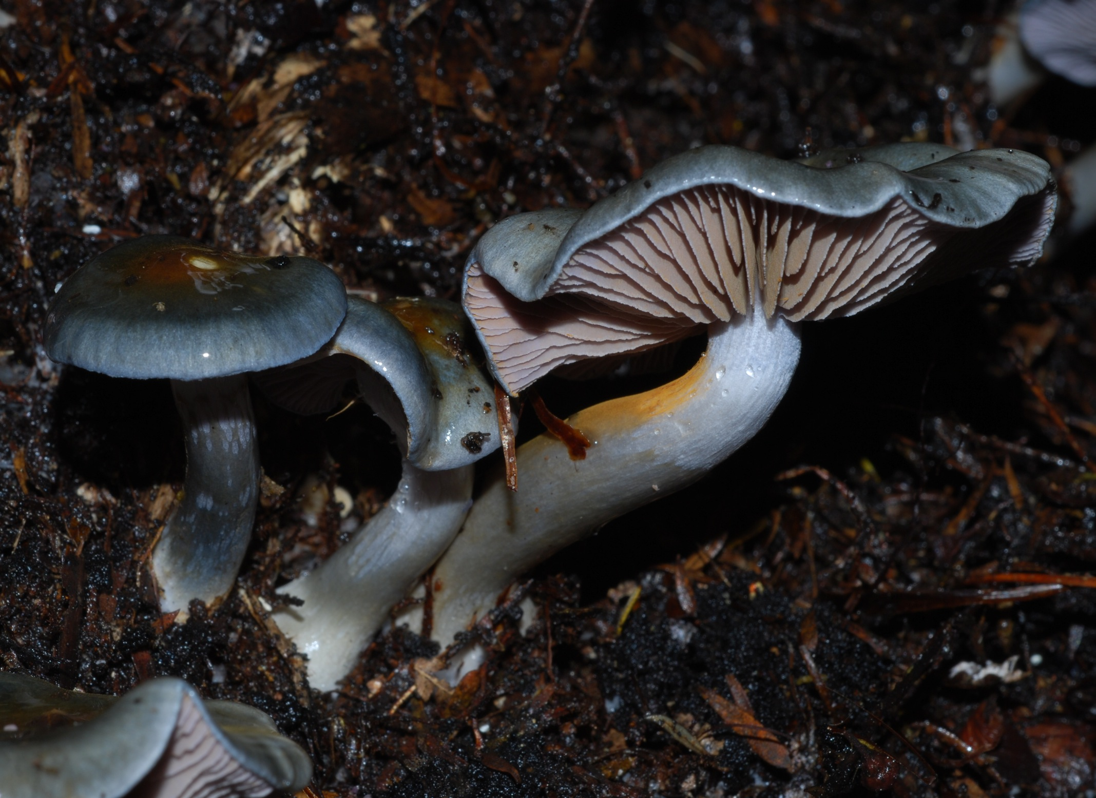 Cortinarius rotundisporus Location: Kaipara harbour, Auckland, New Zealand. Notes: Fruiting from the base of a tree fern in native New Zealand bush.